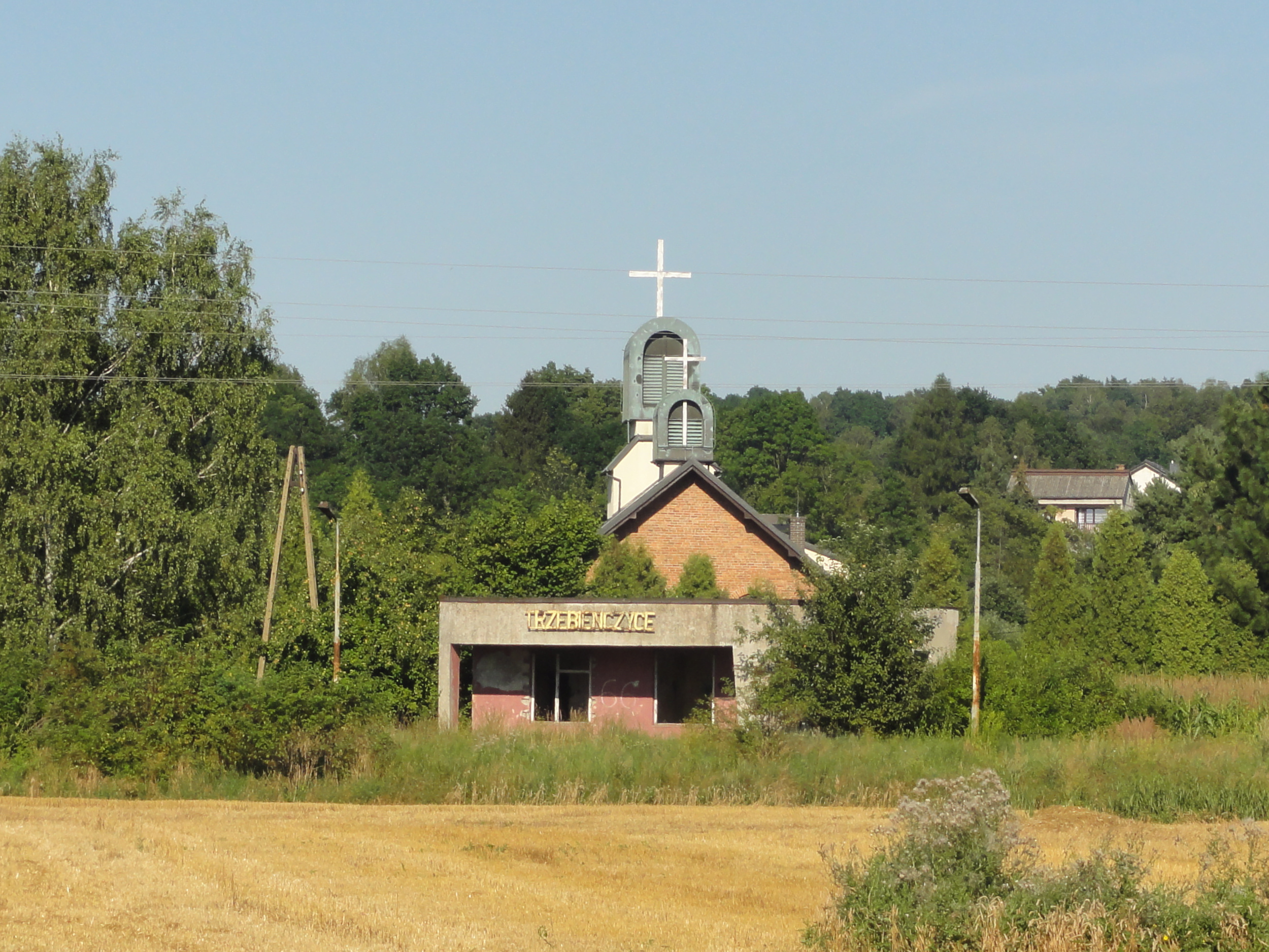 Trzebieńczyce former train station and church